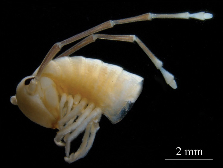 Sinocallipus deharvengi: head and anteriormost pleurotergites